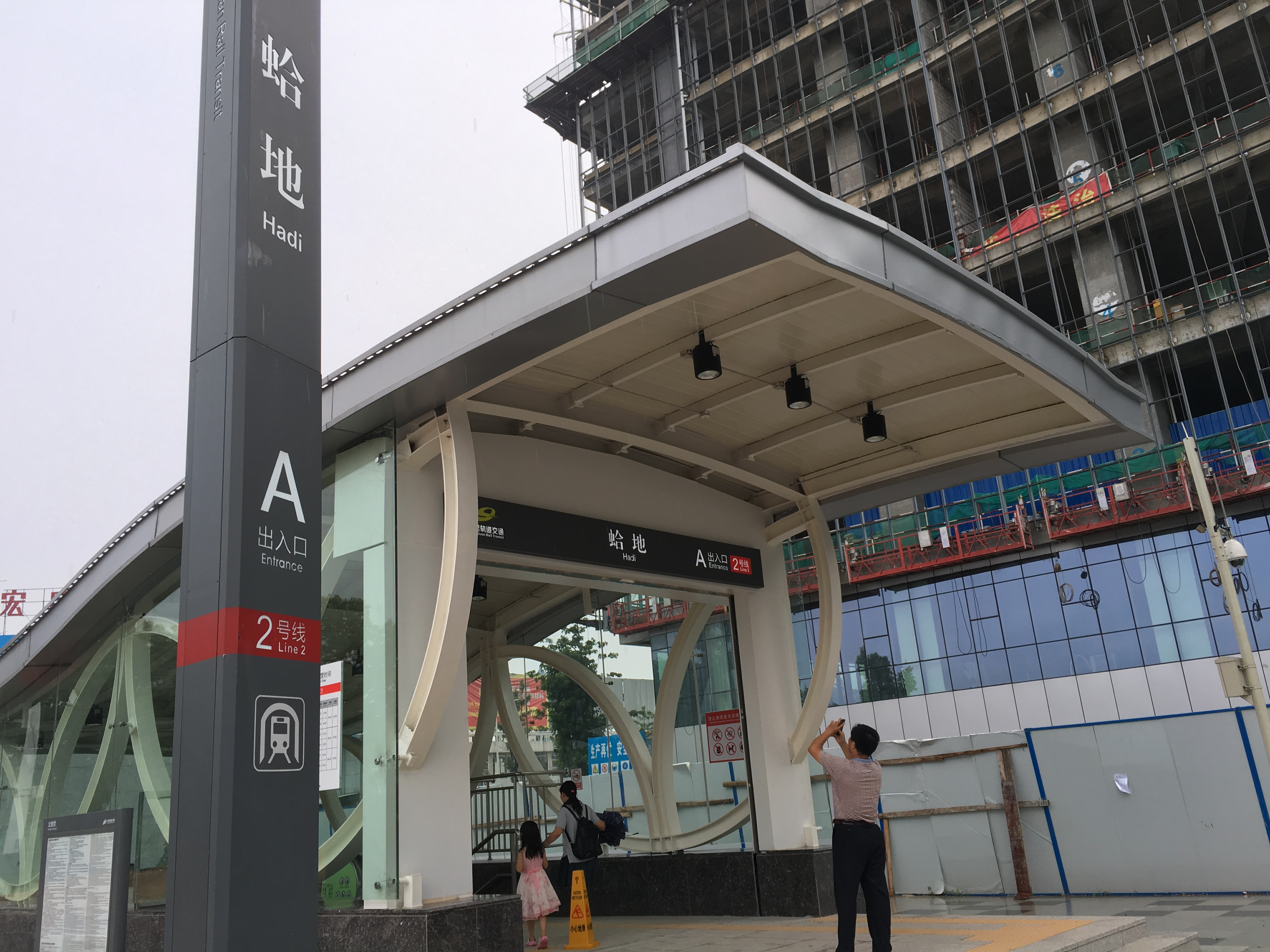 Hadi Station